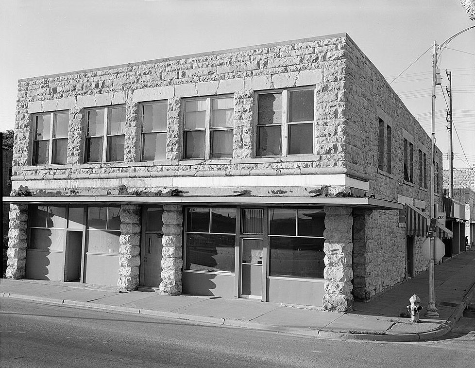 Woodruff Block, 22-24 West First Street, La Junta, Otero County, Colorado. Built 1892 Historic American Buildings Survey, 1985 photo